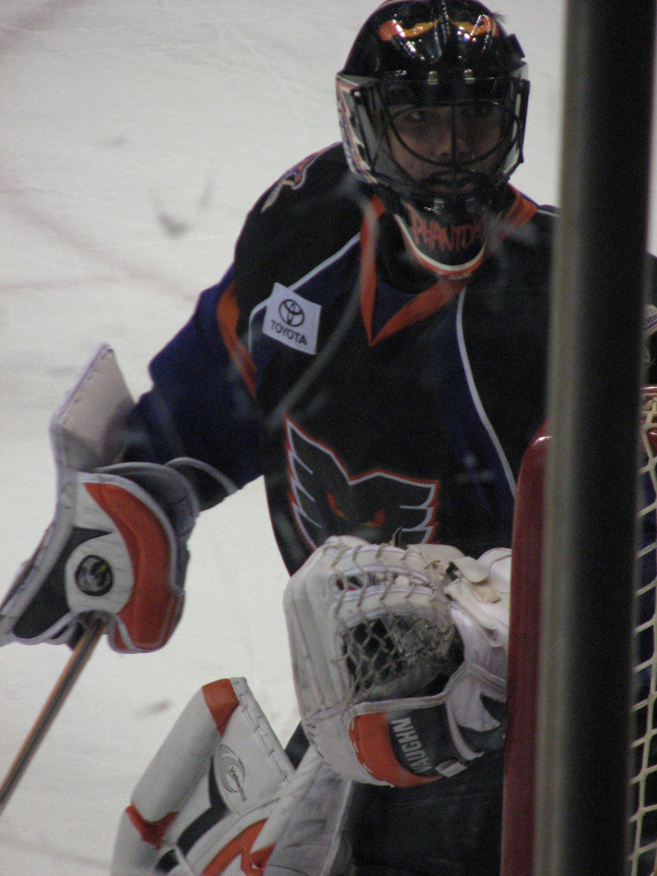 Brian Boucher playing for the Philadelphia Phantoms against the Albany River Rats